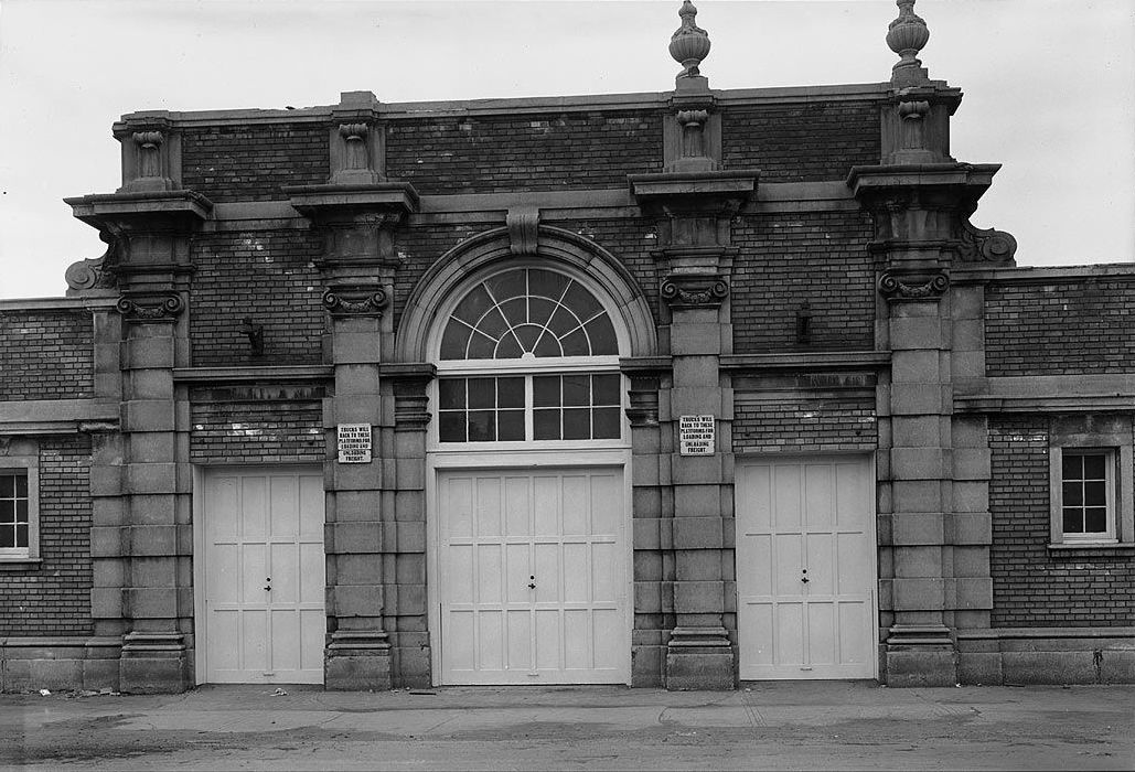 North entrance of the Pure Food Building at Exhibition Place. Toronto, Ontario, Canada.